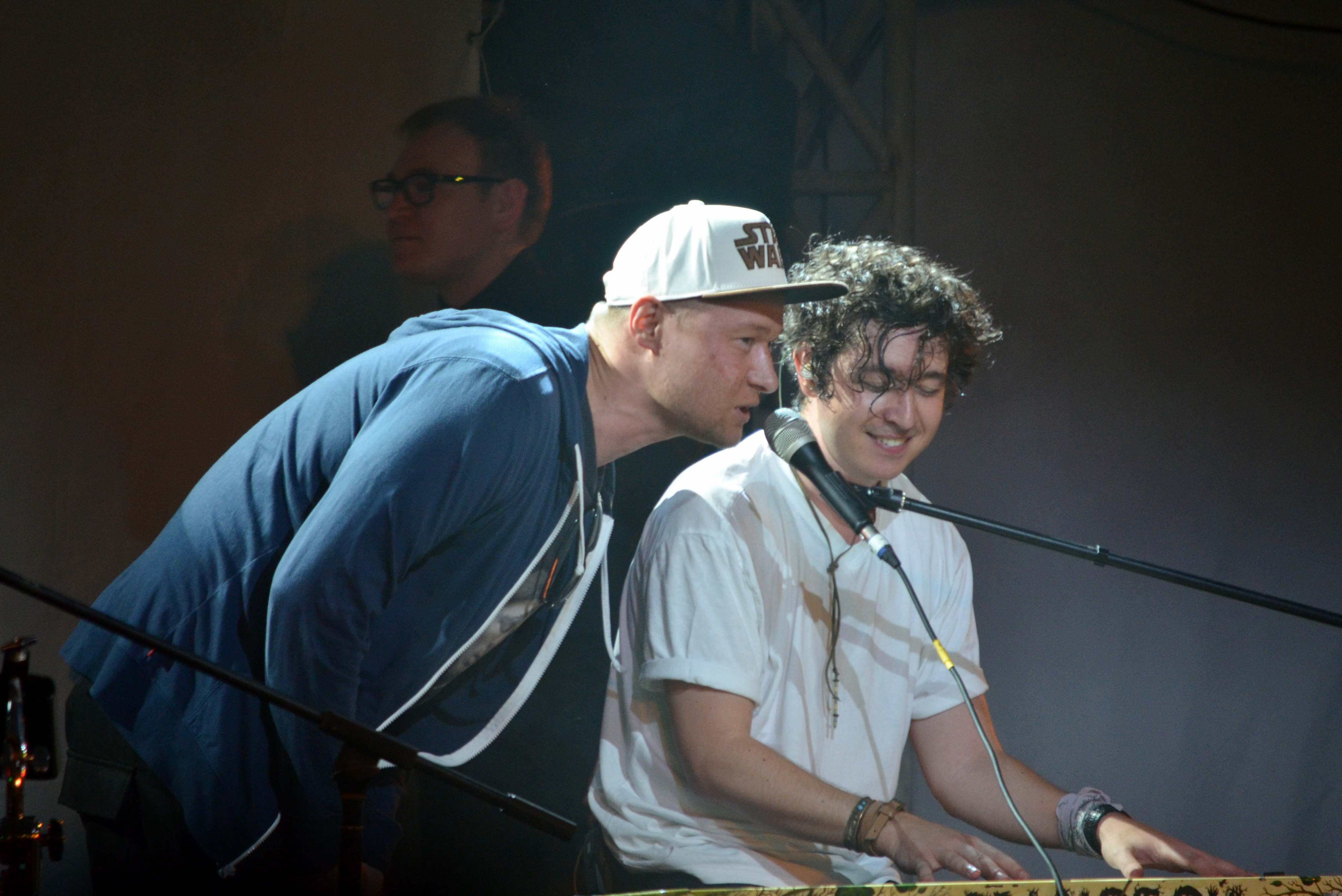 Pianoboy in the Green Theatre with Andriy Khlyvnyuk